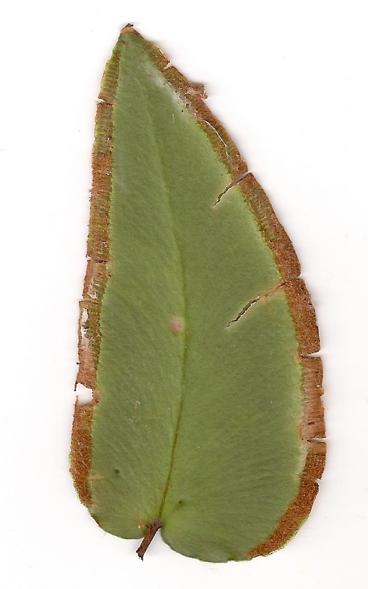 Fern West Head with sori, Ku-ring-gai Chase National Park, Australia. Sori 2 - 3 mm wide. Likely to be Pellaea spp. possibly paradoxa